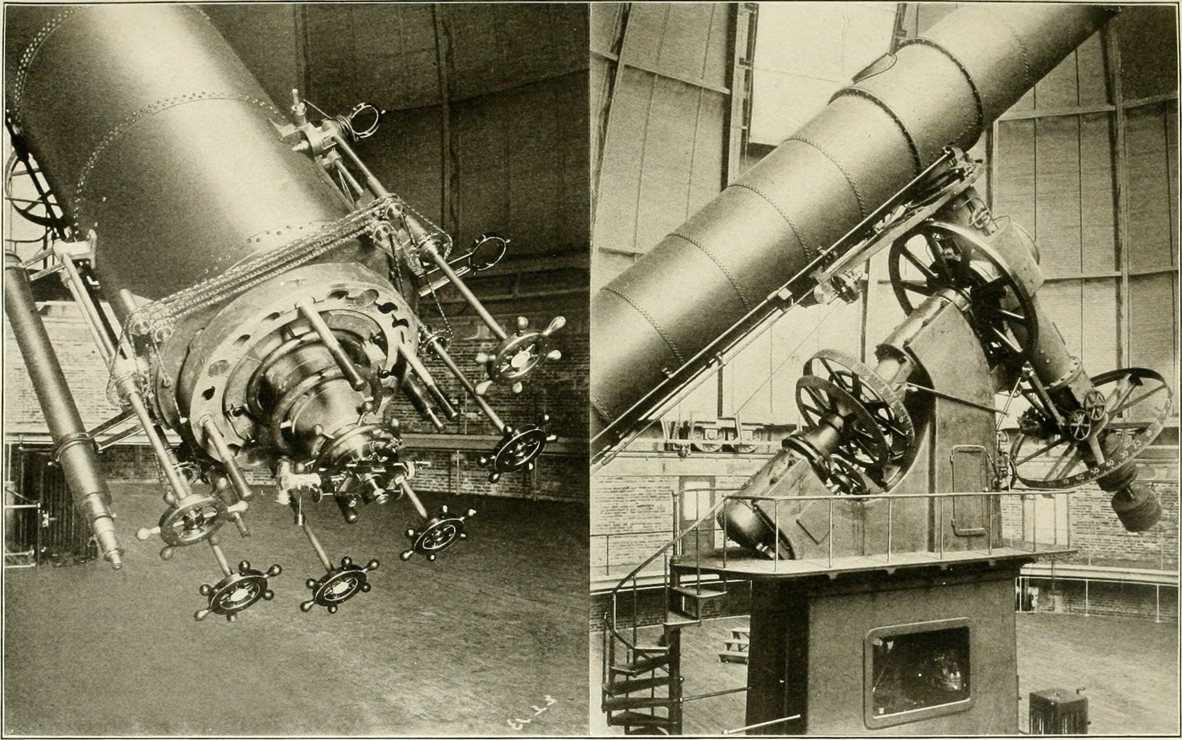 Title: Telescope in Yerkes Observatory, The Americana : a universal reference library, comprising the arts and sciences, literature, history, biograhy, geography, commerce, etc., of the world Year: 1903 (1900s) Authors: Beach, Frederick Converse, 1848-1918 Rines, George Edwin, 1860- Scientific American, inc Subjects: Encyclopedias and dictionaries Publisher: New York : Scientific American compiling dept. Text Appearing Before Image: FiG. 7.— Reflex Zenith telescope. curate support for these pivots, east and west,carrying the tube so that the movement of thetelescope is in the true meridian only. Inthe exact focus of the telescope a fixedsystem of wires is placed. The best ma-terials for this purpose are taken from thecocoon of the field spider, the web beine but I Text Appearing After Image: D r: -1 TELFORu s-oVt of an incli in diameter. These verticalspider webs arc equally spaced and so adjustedinat the central wire is exactly in the opticalaxis of the telescope as measured east and west.A horizontal wire is adjusted exactly in theoptical axis as measured north and south. Par-allel to these central wires there are two mov-able wires, one horizontal and one vertical, eachgoverned by a micrometer screw. In measuring transits of stars for determin-ing right ascensioi?, or for time, the telescope, bymeans of the graduated circles, is set to thedeclination of the star required, and when thestar appears, its transit across each of the wiresis recorded on a chronograph, by the observertapping an electric key. In determining declina-tions, the telescope, by means of the graduatedcircles, is set to the approximate declination ofthe star to be observed, and when the star ap-pears at the edge of the field, the observer care-fully adjusts the telescope until the star seems and the